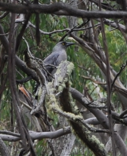 Grey Currawong Strepera versicolor foraging in loose tree bark and finding big larva to eat. Blue Mountains, Australia.